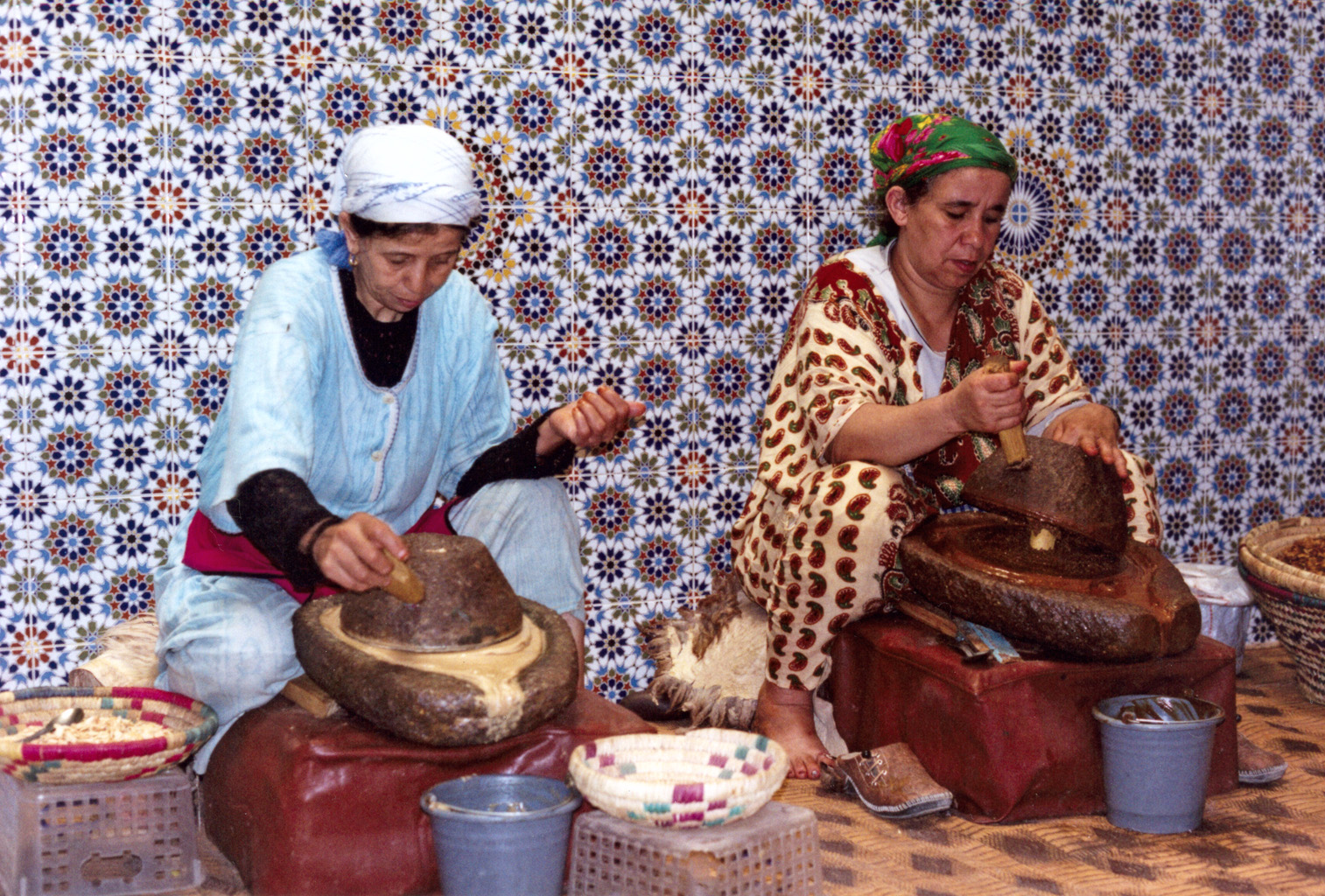 The production of argan oil by traditional methods.